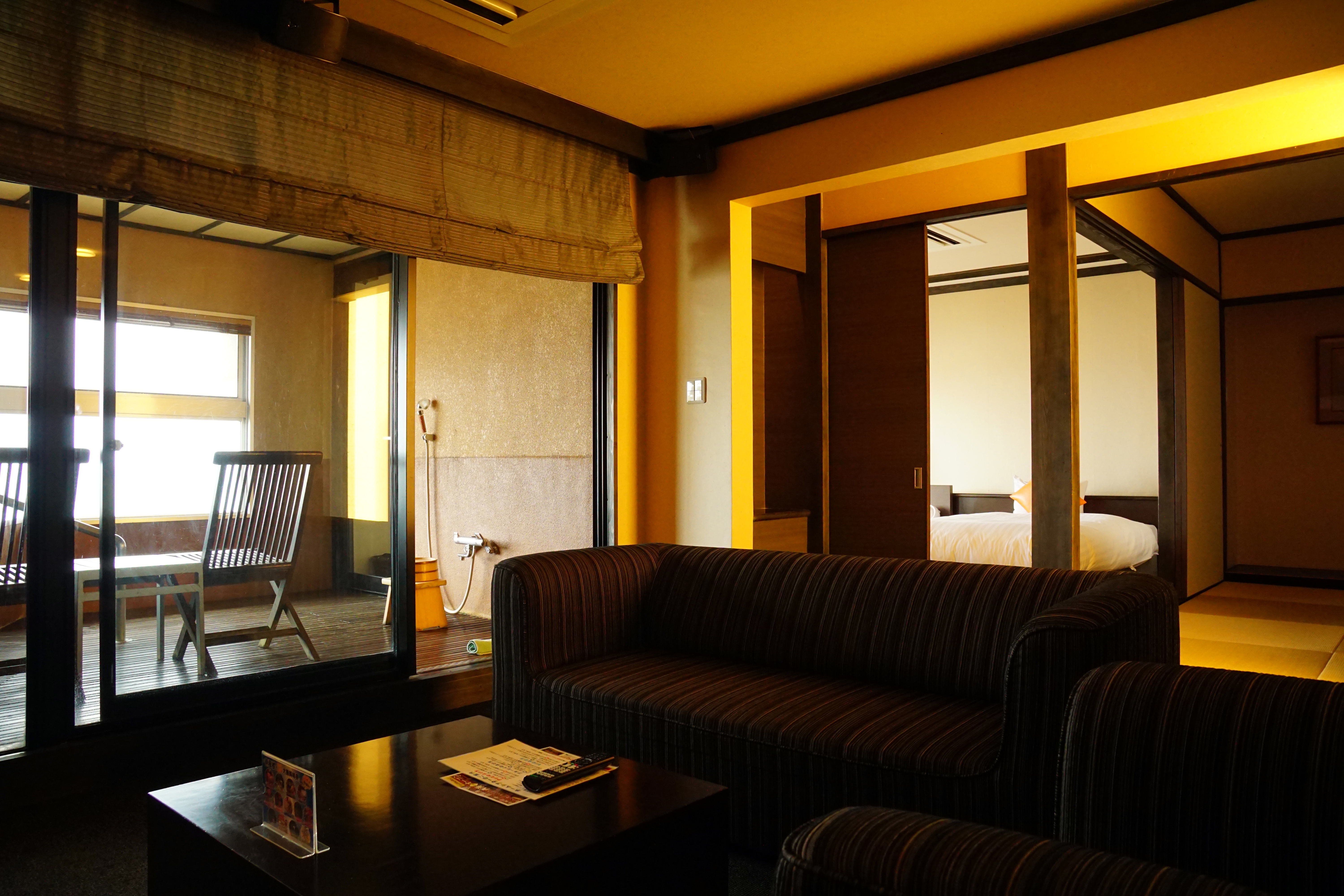 Shimabara Onsen Hotel Nampuro in Shimabara, Nagasaki prefecture, Japan.